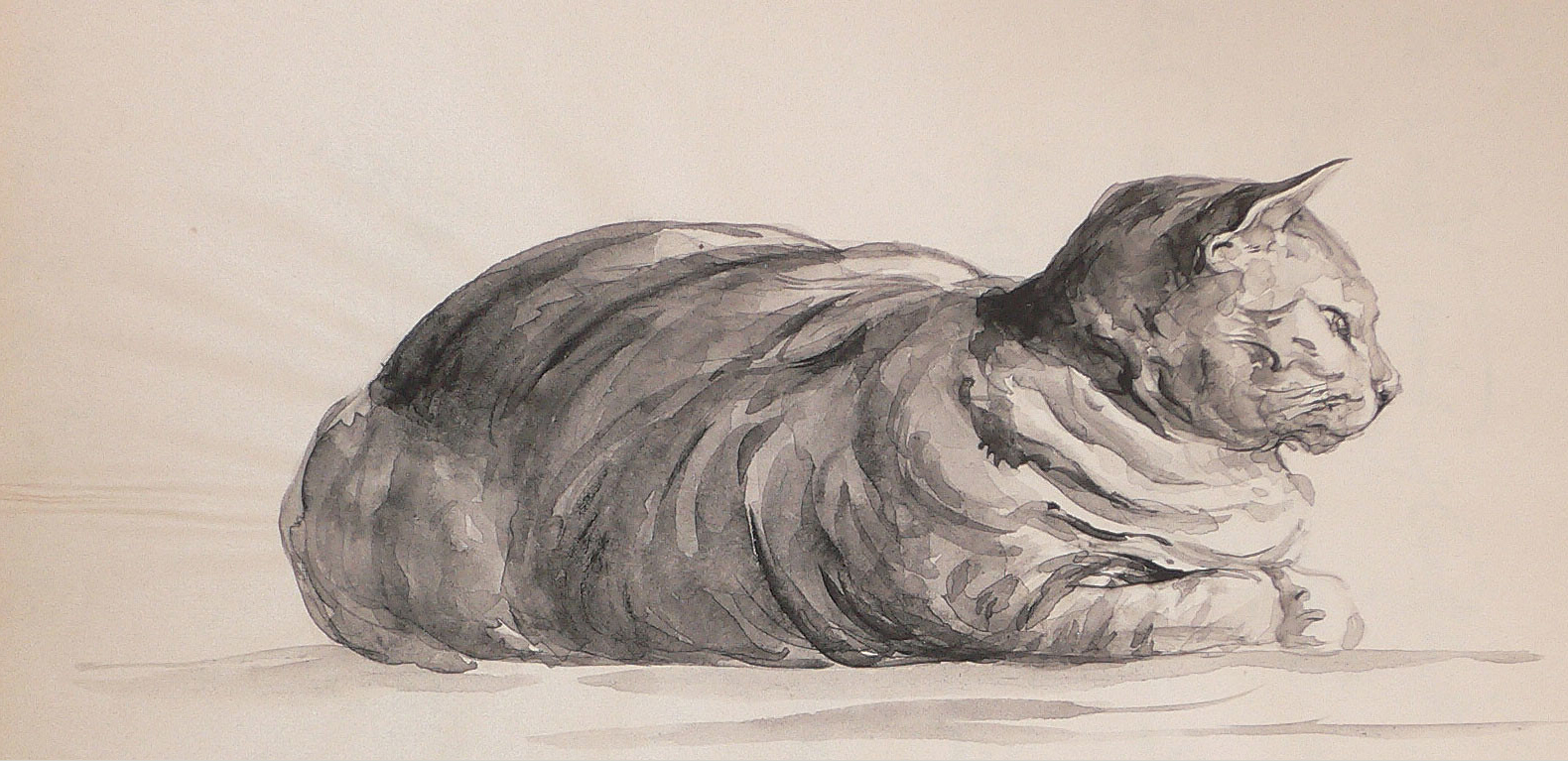 A drawing from the album of Marianne Scharwenka, signed by the author: My cat Columbus which was sho ked with Madame Scharwenka when in London.